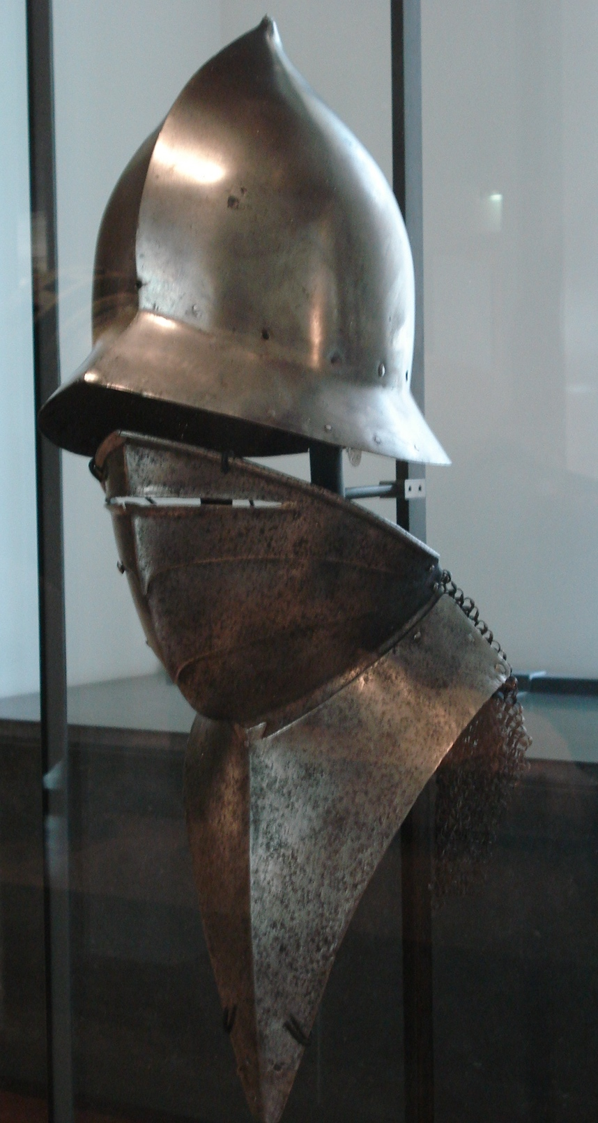 Kettle hat and bevor. Made in Calatayud (Aragon, Spain) ca. 1470. Les Invalides (Paris)